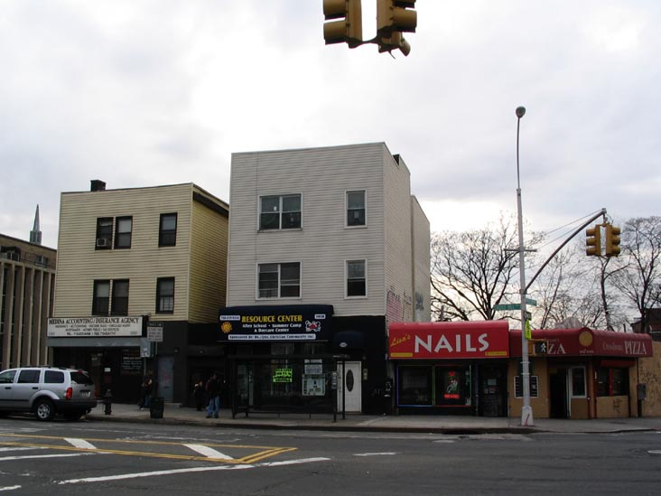 A pizzeria, a nail salon, and other storefronts on the southwest corner of Castle Hill Avenue and the eastbound service road of the Cross Bronx Expressway (I-95), in the Castle Hill section of The Bronx, New York City.